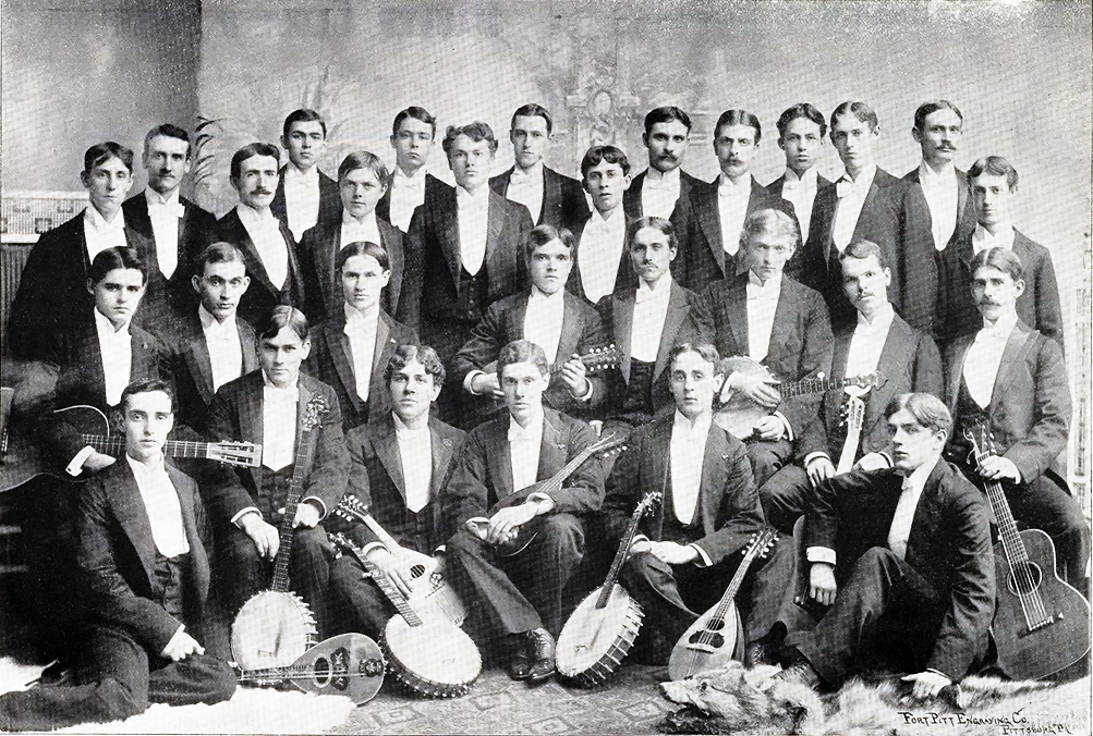 Picture of 1894 Glee Club of the Western University of Pennsylvania, now known as the University of Pittsburgh